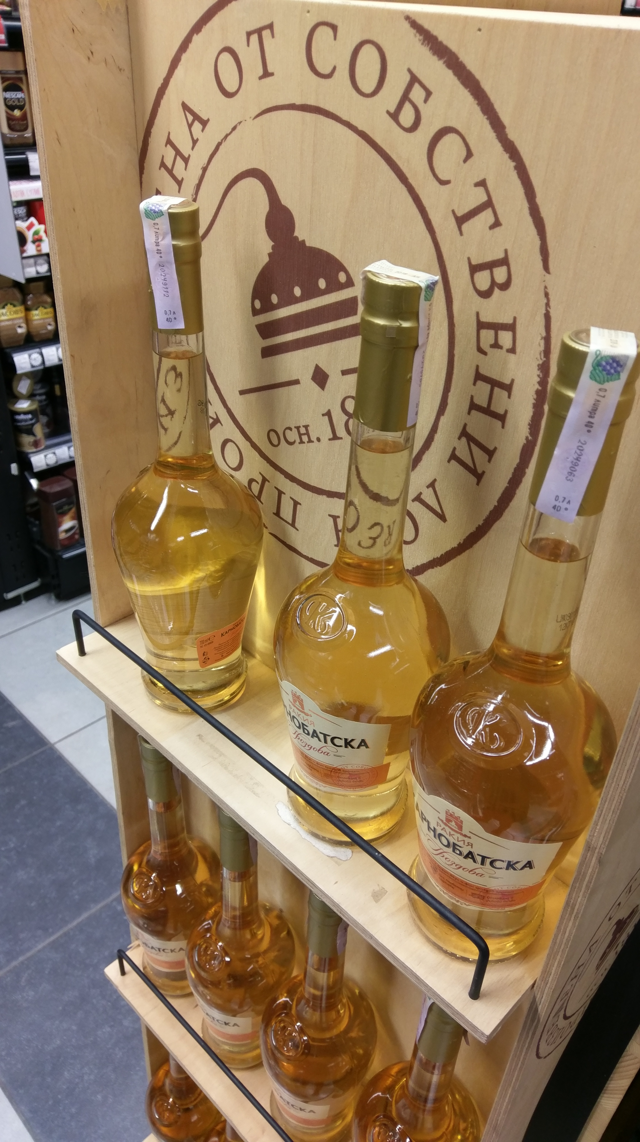 Bottles containing the traditional Bulgarian brandy beverage called 'rakiya'